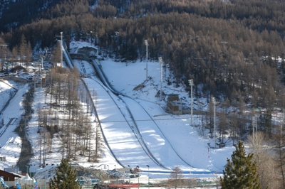 The Ski Jumping Complex in Pragelato, host of Torino 2006 Olympics.